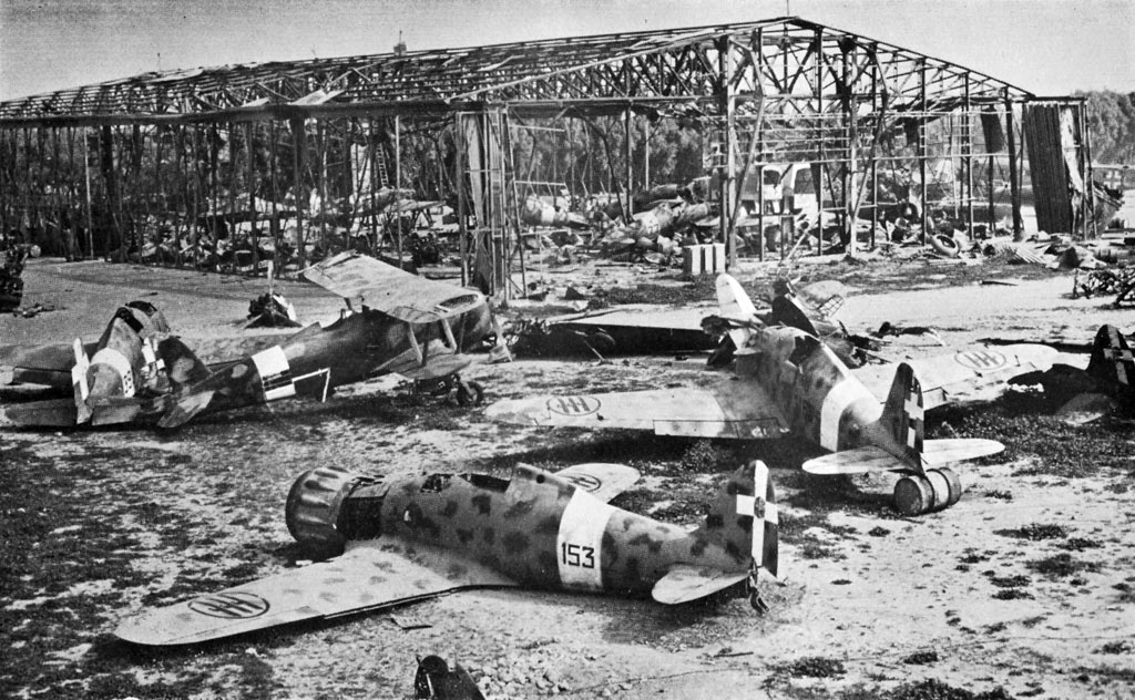 Wrecked Italian Fiat CR.42 and G.50 aircraft at Castel Benito airport, Tripoli, Libya, in 1943.